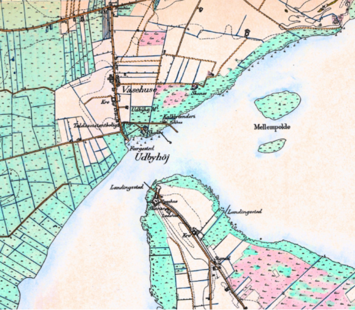 Udbyhøj ferry in 19th Century